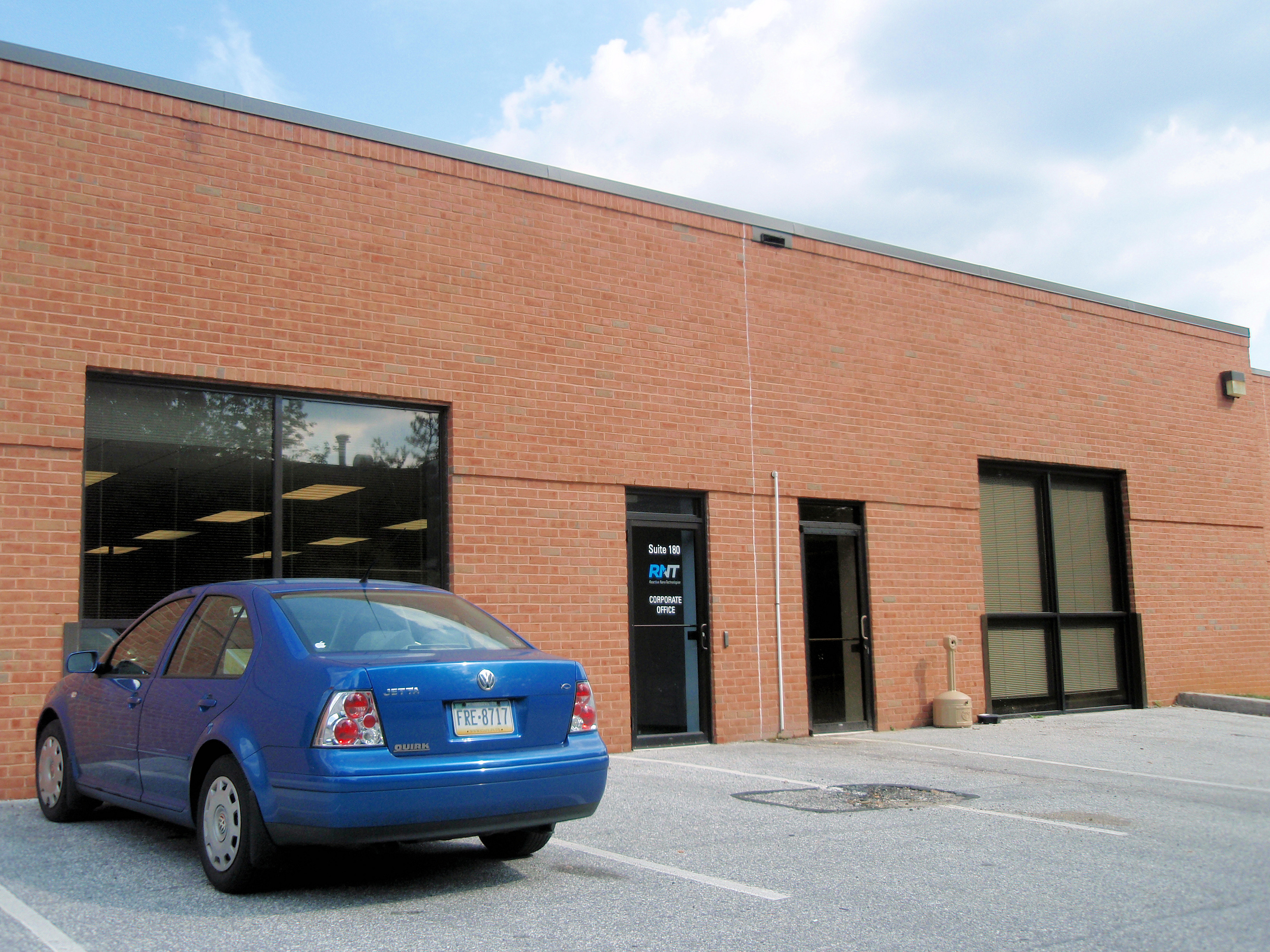 The old MicroProse headquarters at 180 Lakefront Drive in Hunt Valley.